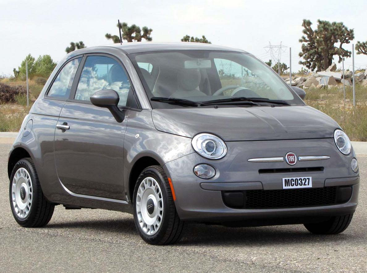 2012 Fiat 500 photographed in USA.